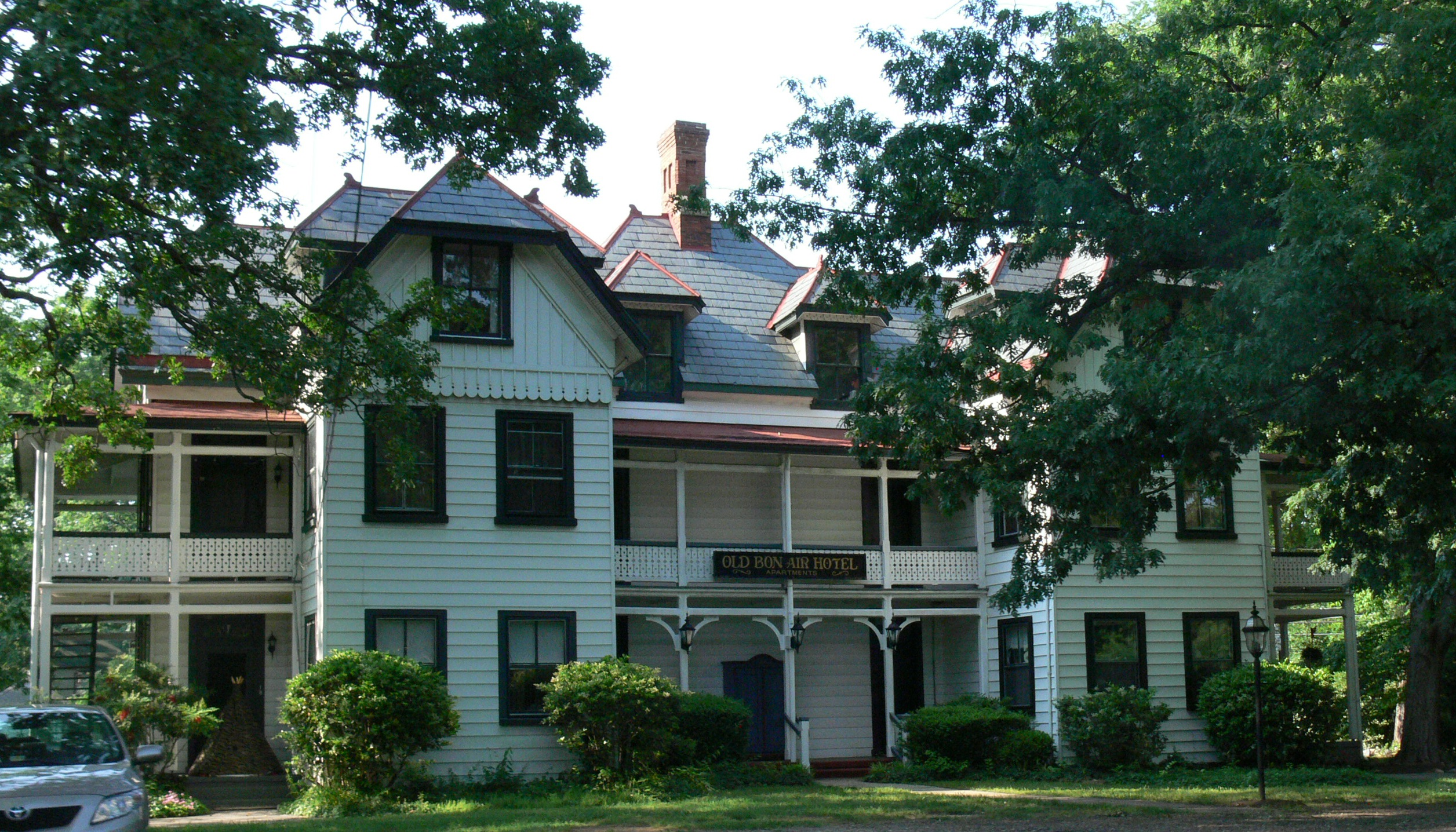 Located in Bon Air, Virginia, the Stick-style annex for the Bon Air Hotel was built in 1881-82, surviving the fire that destroyed the main hotel building in 1889. It is a contributing structure to the Bon Air Historic District, on the National Register of Historic Places (information here from the nomination form). It is presently apartments.